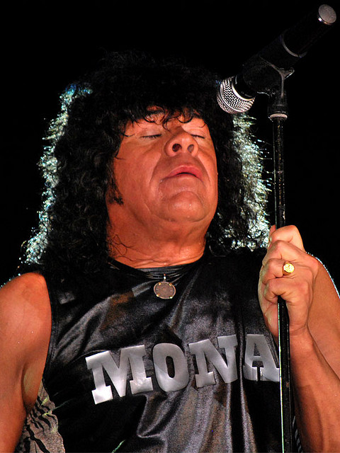 Mona Jimenez, well known singer from Cordoba, Argentina.